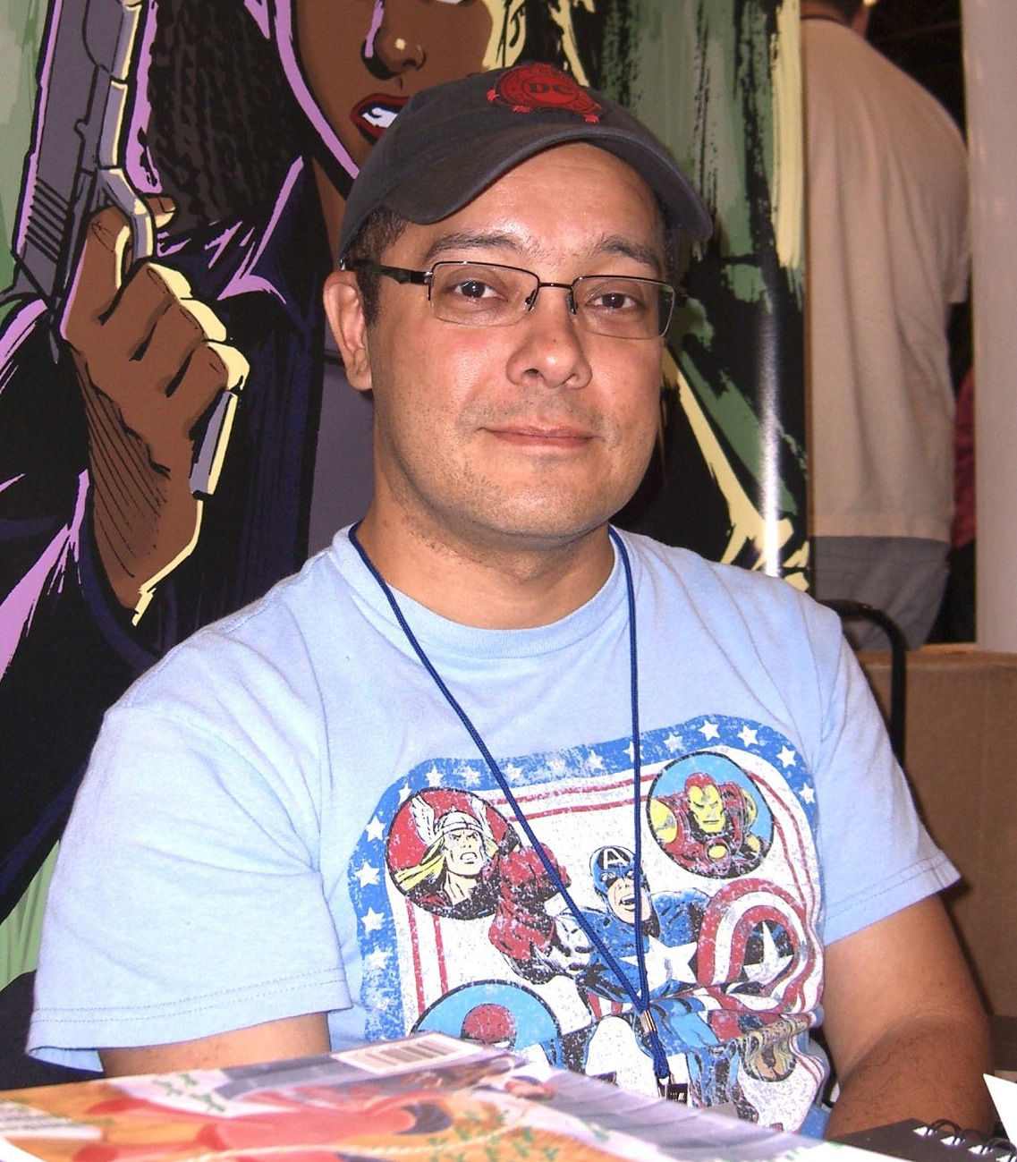 Comic book creator Jose Marzan, Jr., at the New York Comic Convention in Manhattan, October 10, 2010. Photo by Luigi Novi. This photo may be used, modified and published for any purpose, only if a easily visible credit to the photographer is placed near the photo in each instance in which it is used. (See licensing information below.) Publication of this photo without this proper attribution constitute copyright infringement. For more information on my photos, you can contact me here.